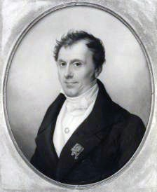 Justin-Francois de Soleilrol (*Verdun 1781-Metz*1863),Chevalier du Ordre Royal de Saint-Louis (1820)Oficier du Légion d´Honneur (1839) ,Polytechnicien, militaire, géologue, botaniste, archéologue, numismate, musicologue, poète, chef de bataillon du génie, professeur de constructions/Ecole d'application Artillerie et Génie. Grandfather of Alexandrine Marie Henriette de Soleilrol, mother of Henriette Husson, wife of Paul Chastelain.